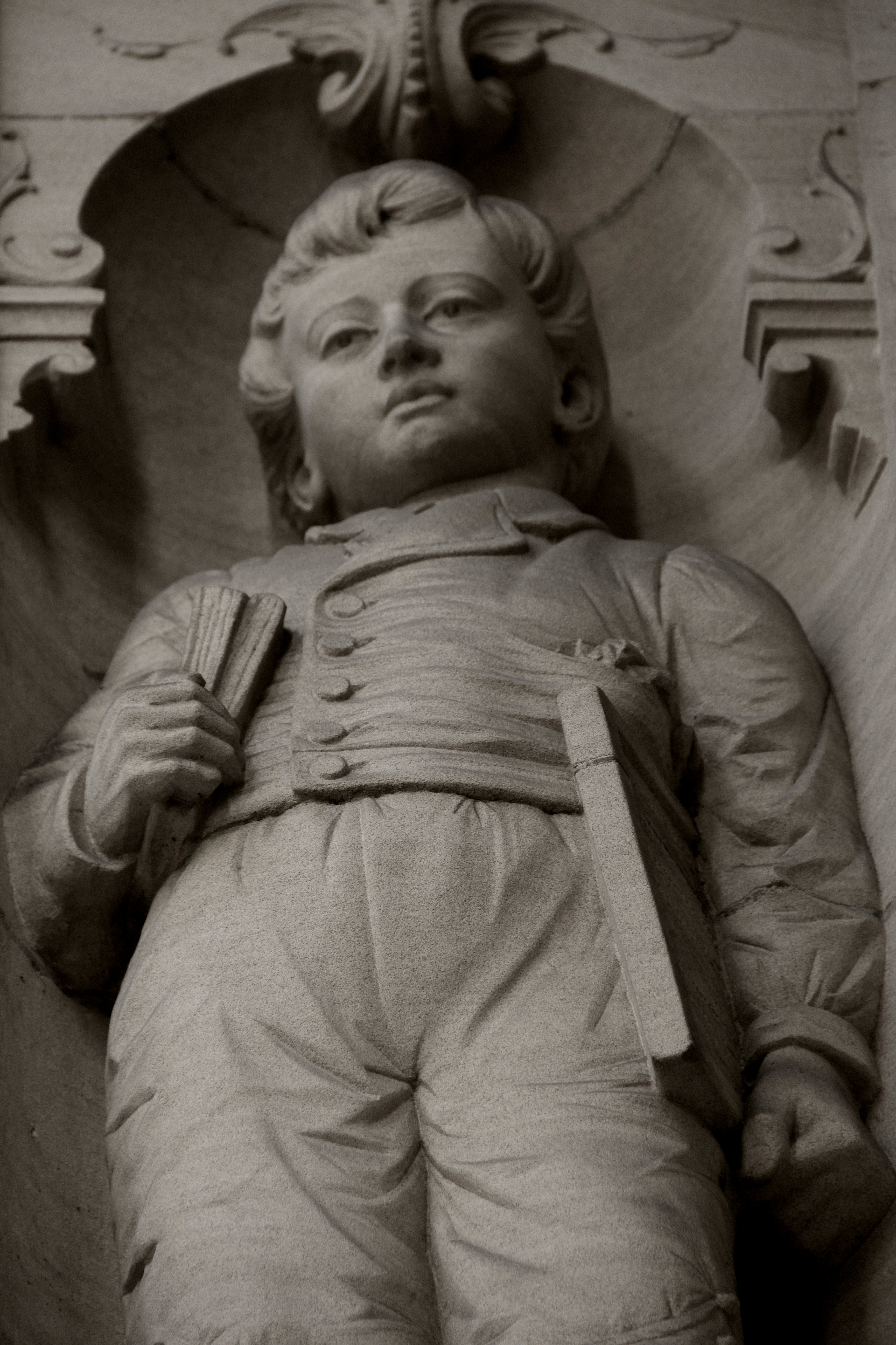 One of two statues of children, in the entrance archway of the former School Board Offices, Calverley Street, Leeds. This Grade II* listed building was designed by George Corson, and built 1878-84, although the date 1880 is carved on it, and it was opened for use in 1881. Matthew Taylor created the two sculptures of a schoolboy and schoolgirl in the entrance archway, and Benjamin Payler executed all the other stone carving. The statues were once known as "Frank and Molly," and the child models both lived in Woodhouse, Leeds. The boy, Francis Bertram Taylor (1868-1950) was the son of the sculptor. He became an artist-sculptor and served in WWI. The girl, Mary Isabel Ingleby (1868-1925), married a chemist who had a shop locally.